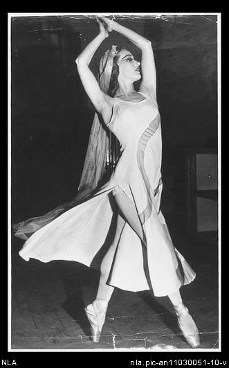 Laurel Martyn as the lead in Vltava (original print 36.3 x 22.9 cm)